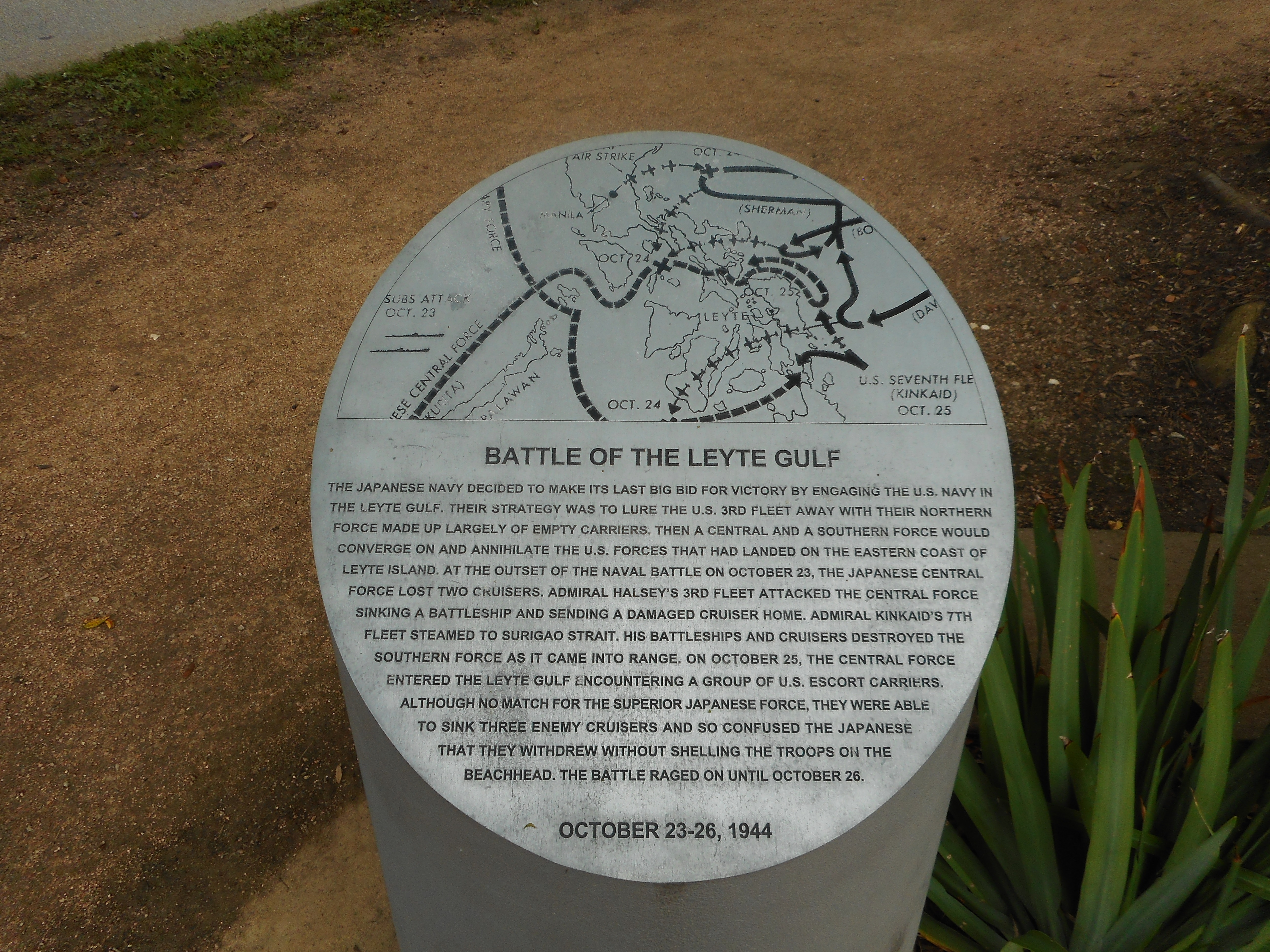 Battle of the Leyte monument at the Houston WWII Memorial in the Houston Heights, Houston, Texas.